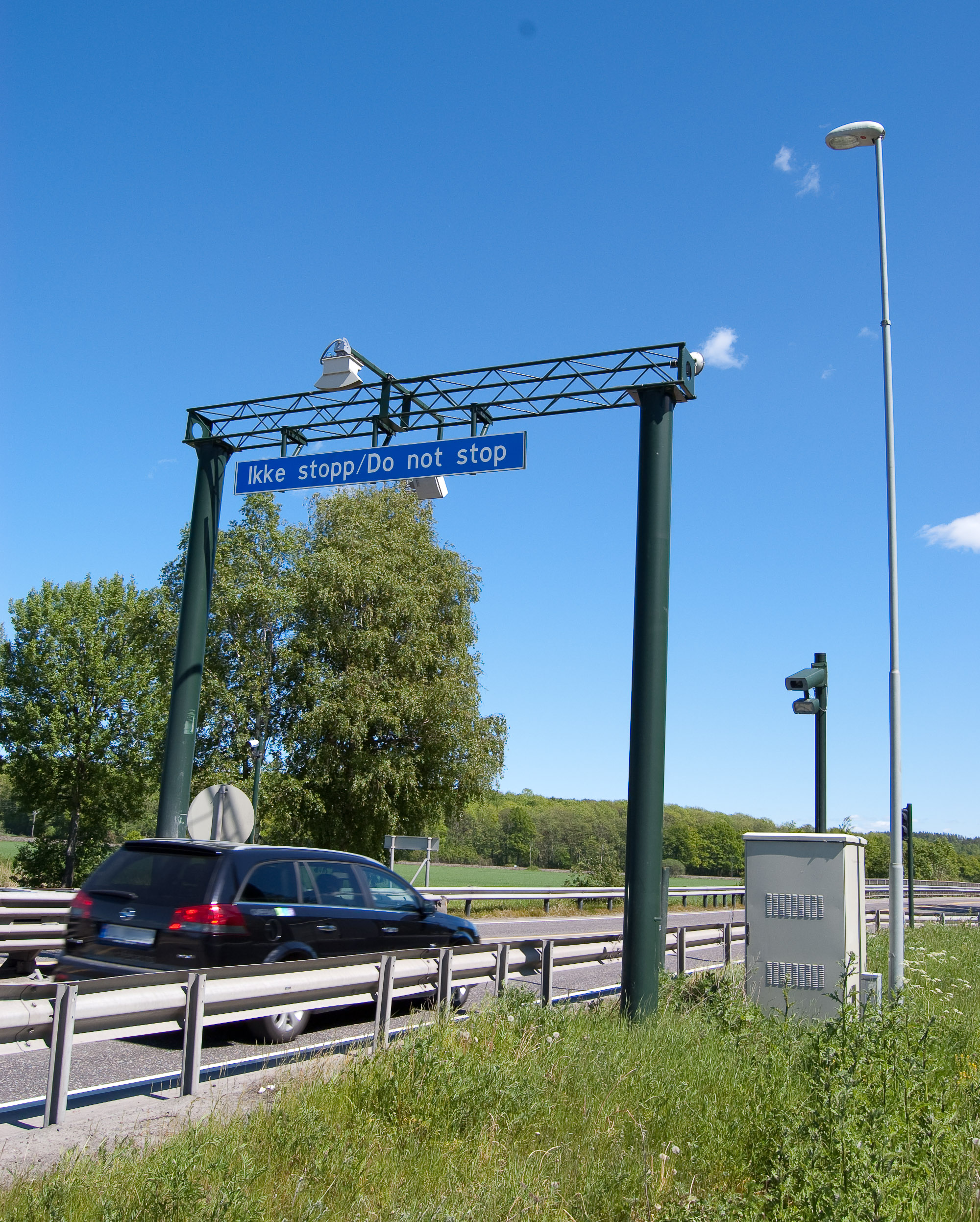 Automatic toll station at Auli in Tønsberg, Vestfold, Norway. Part of the Tønsberg toll ring.